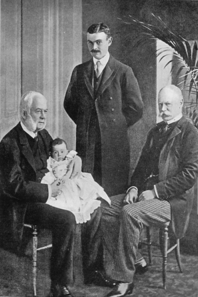 Four generations of the Dukes of Richmond. Seated front left is 6th Duke of Richmond and Gordon (1818-1903); seated right is the Earl of March and Kinrara (later the 7th Duke) (1845-1928); standing is Lord Settrington (later the 8th Duke) (1870-1935). The infant on the Duke's knee is Hon. Charles Henry Gordon Lennox (the son of Lord Settrington) (1899-1919).